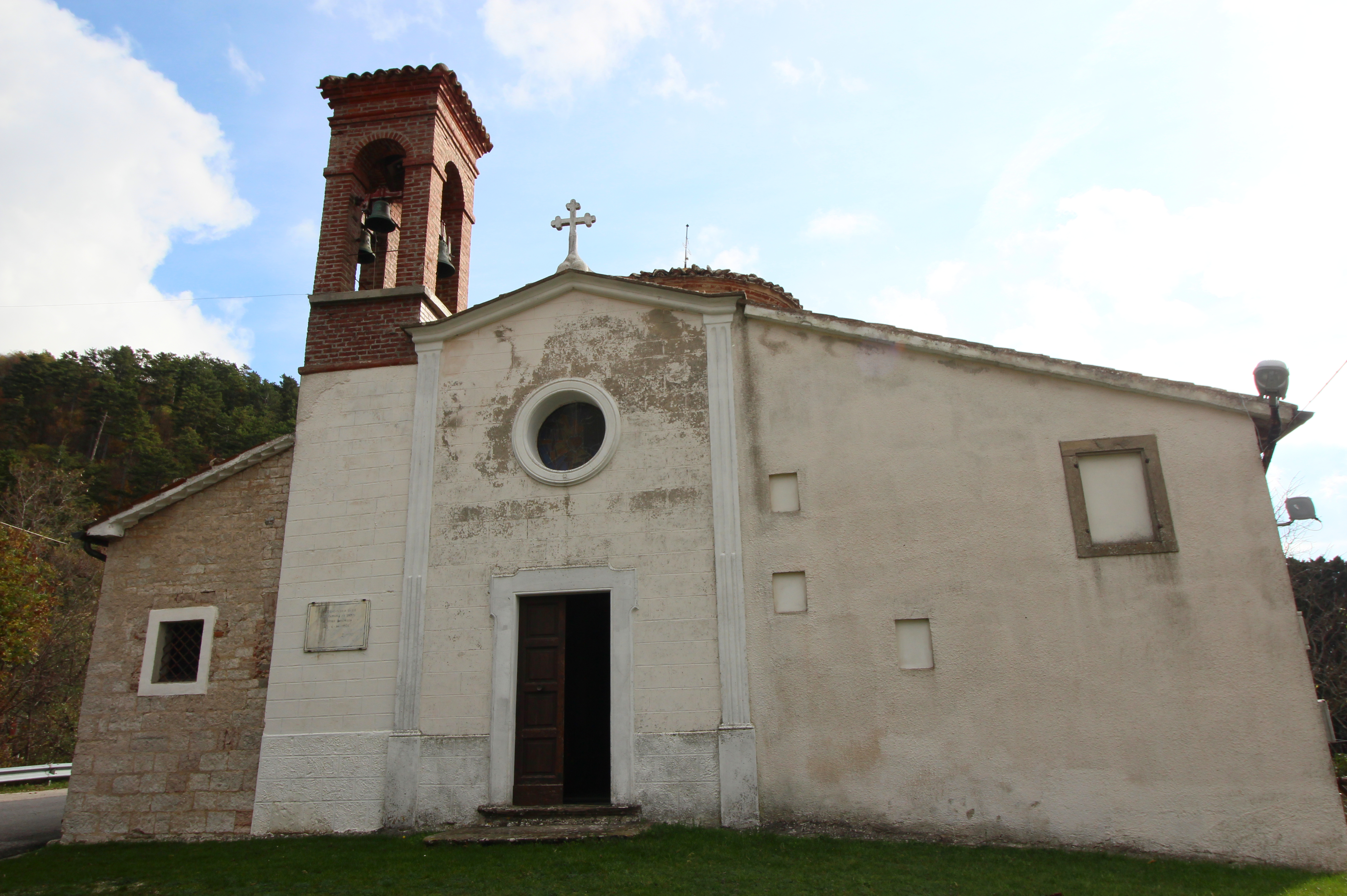 church/sanctuary Madonna del Calvario (also Madonna Addolorata del Monte Calvario), Scheggia e Pascelupo, Province of Perugia, Umbria, Italy